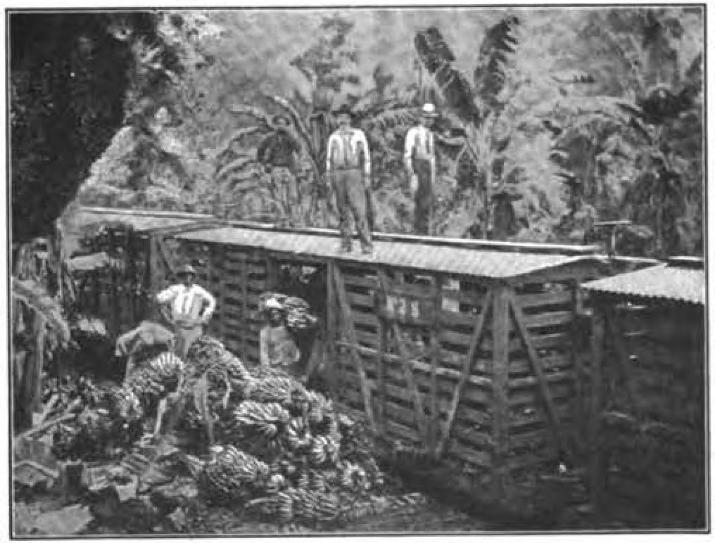 Shipping bananas in Costa Rica, from Maury's New Elements of Geography for Primary and Intermediate Classes.